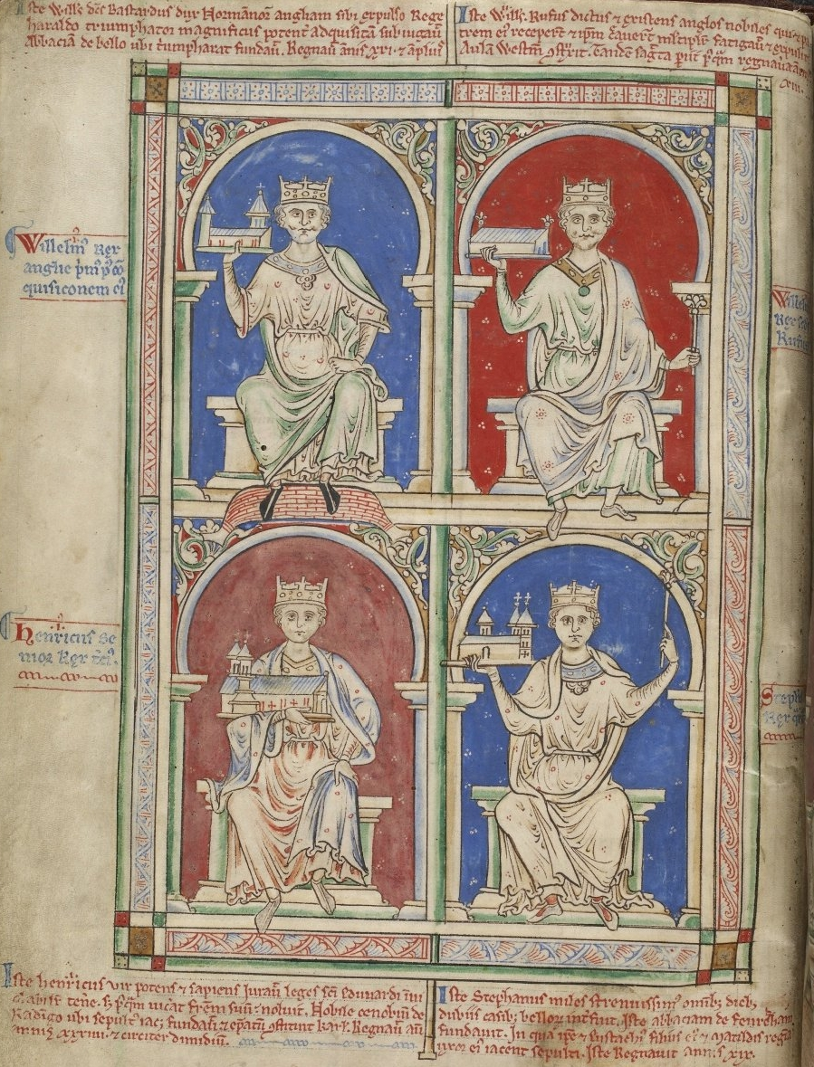 Matthew Paris, Chronica Majora BL Royal.C.vii f. 8v with text